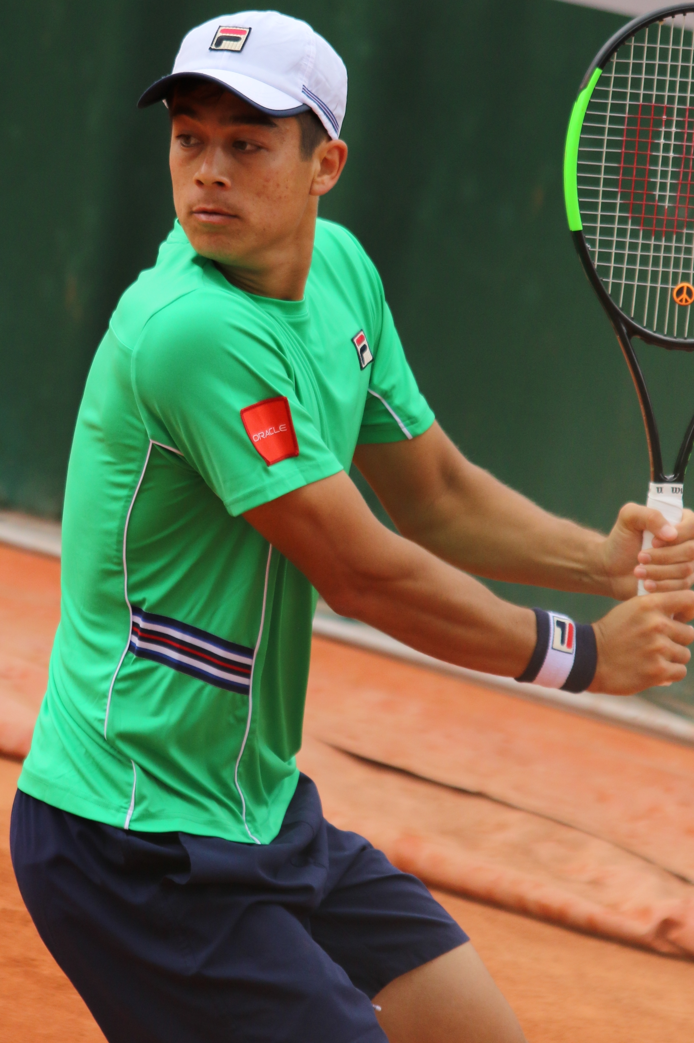 McDonald RG19 (23)